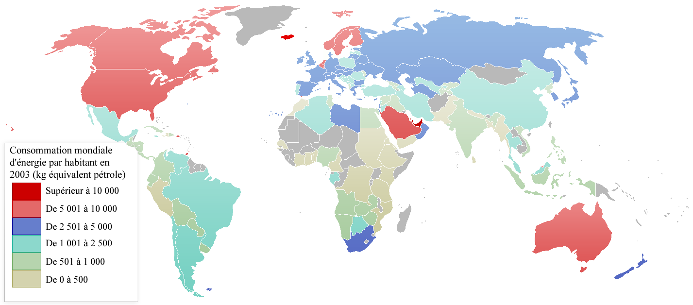 A map depicting world energy consumption per capita based on 2003 data from the IEA.